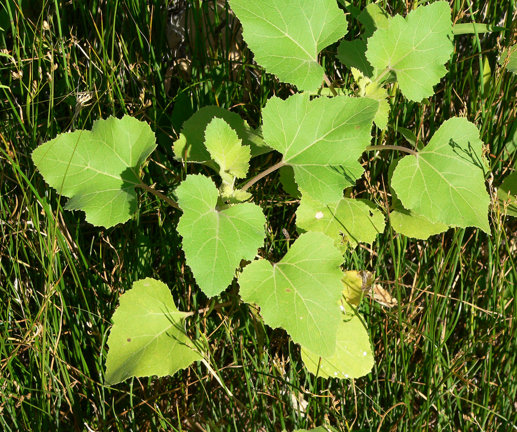 Xanthium strumarium in Pine Creek Canyon near the old homestead, Red Rock Canyon, Spring Mountains, southern Nevada (elev. about 1200 m)